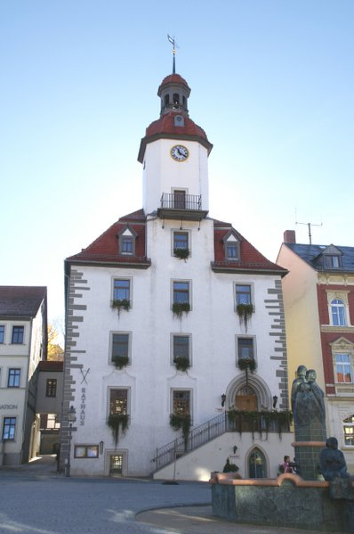 City Hall of Schmölln in Thuringia, Germany. Fountain by Christian Uhlig.